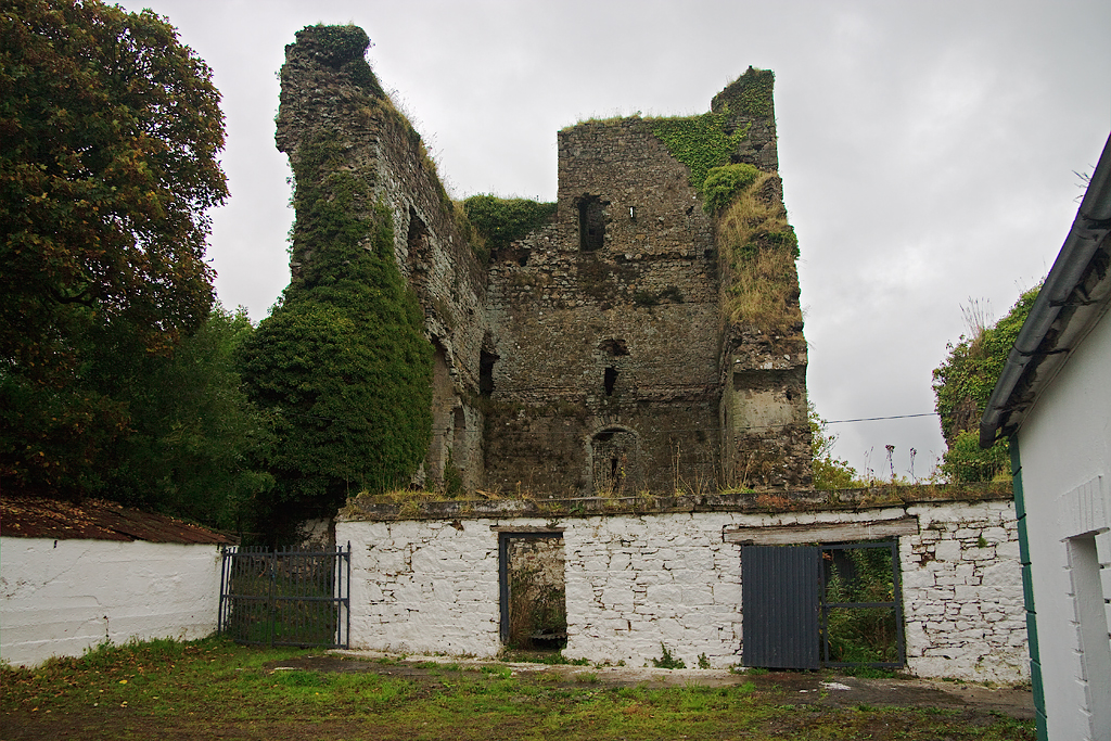 Castles of Munster: Castletown Coonagh, Limerick, near to Derraun Bridge, Limerick, Ireland. The remains of this castle in a farmyard lies close to the Cahernahillia River south of Doon. The view is of the interior, as access to the exterior on the opposite side was not possible on this occasion. Although generally known as an O'Brien castle from their later occupation, it is in fact a Norman keep dating from c.1200 its east end wall still standing over 60 feet in height.